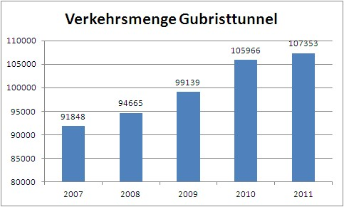 Traffic volume in the Gubrist tunnel. Source Data from automatic traffic counter #287 Weiningen, Gubrist (Autobahn) operated by Bundesamt für Strassen.